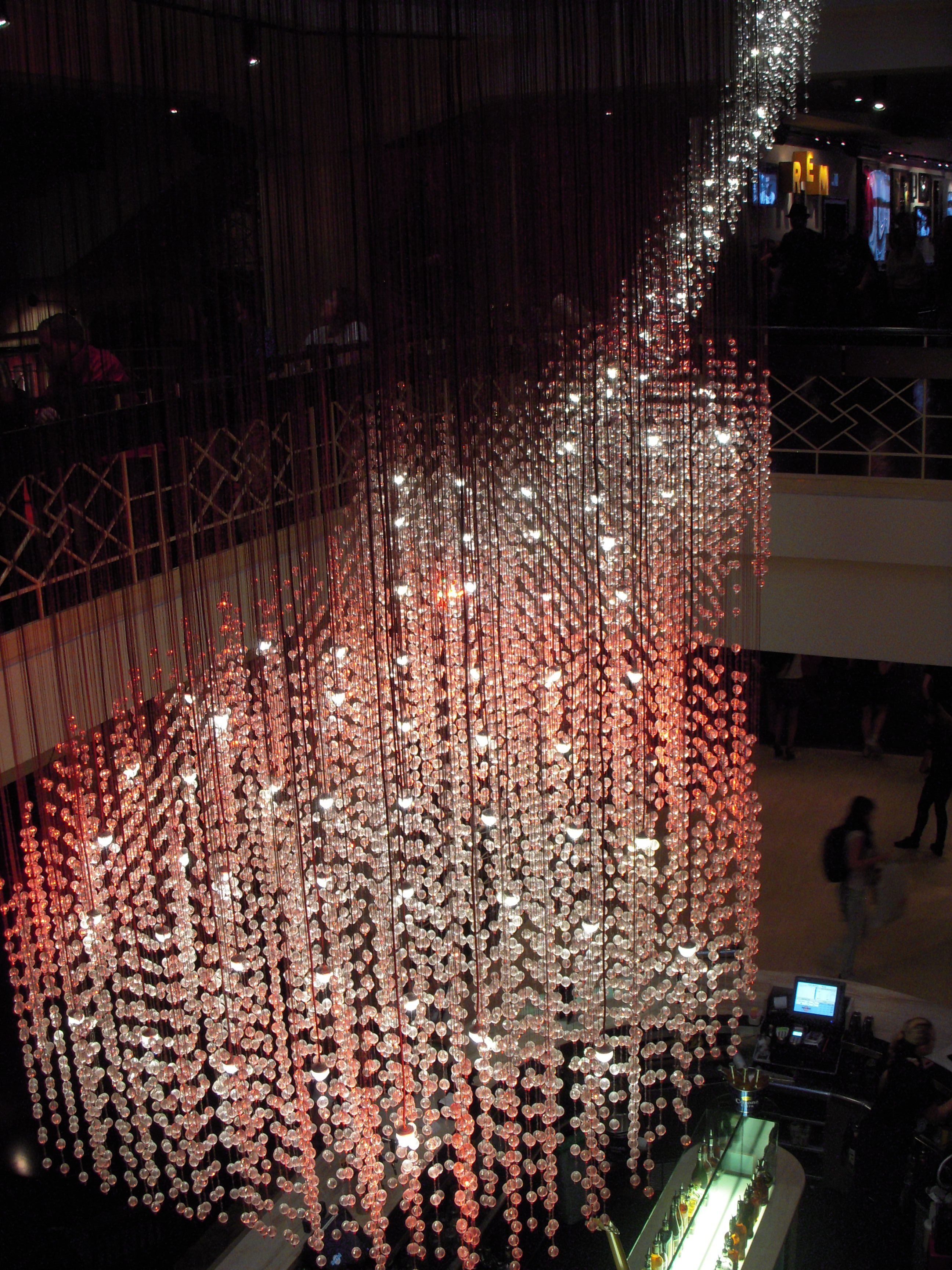 Light-Art on the Hard Rock Café in Prague. Huge guitar created by lots and lots of lightbulbs. September 22, 2010.